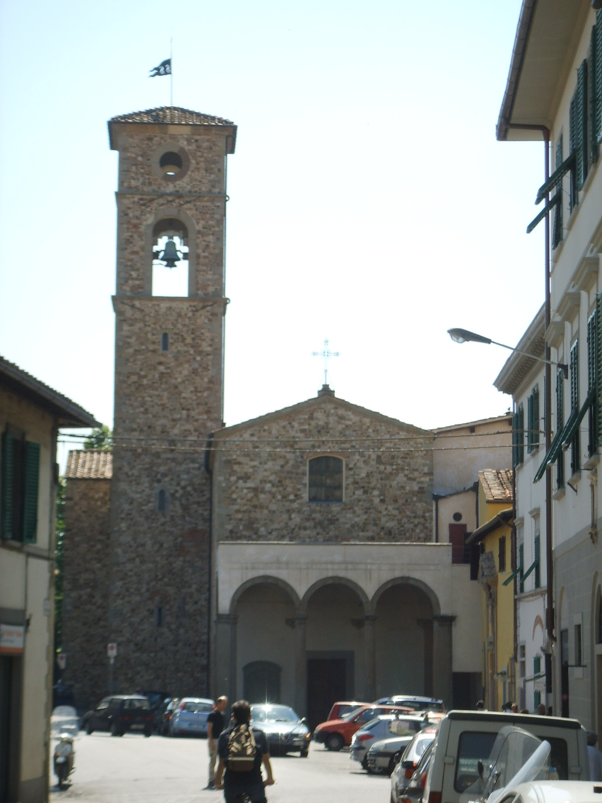 San Salvi church, outside view, in Florence, Italy